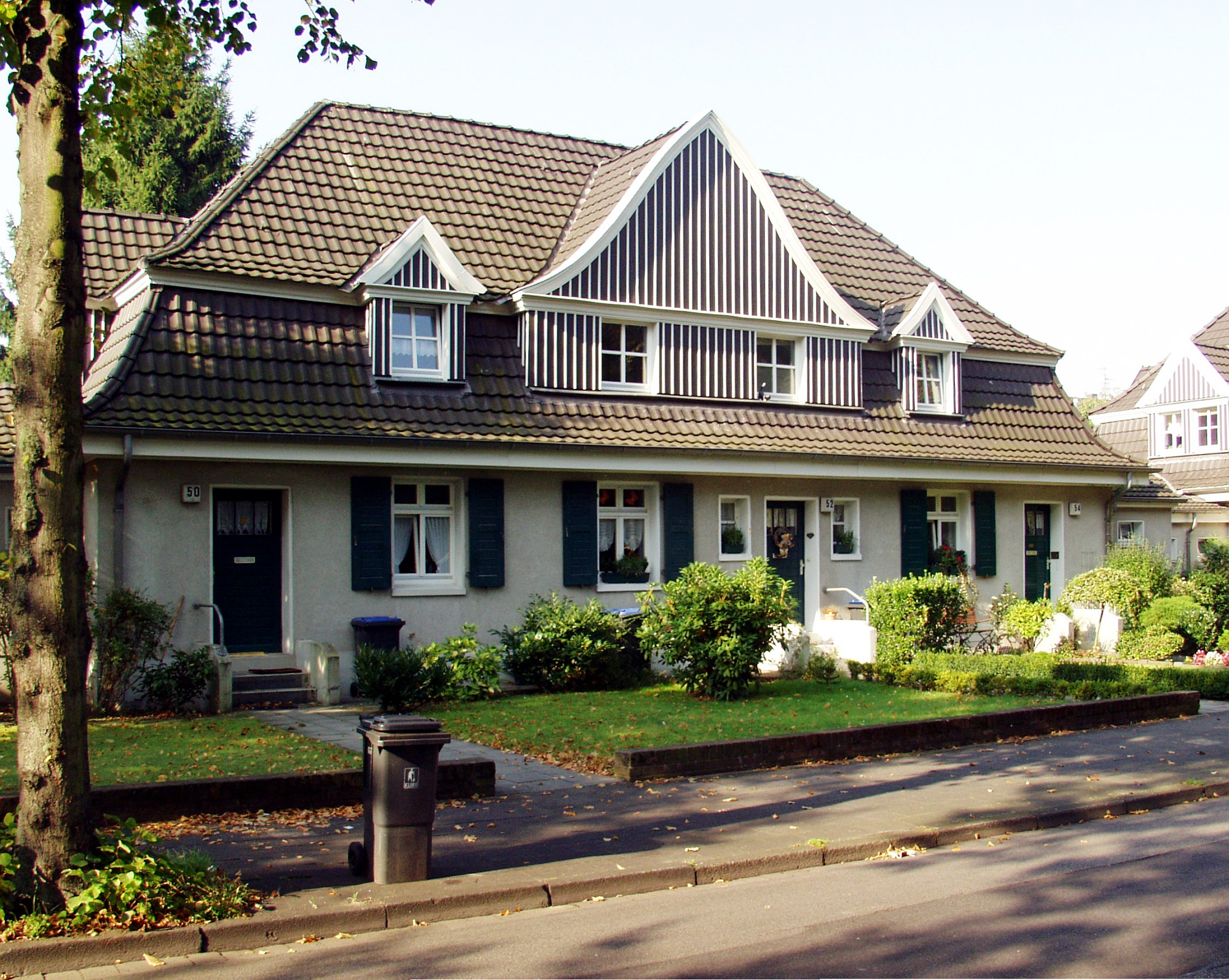 House of the miner colony "Meerbeck" in Moers, Germany